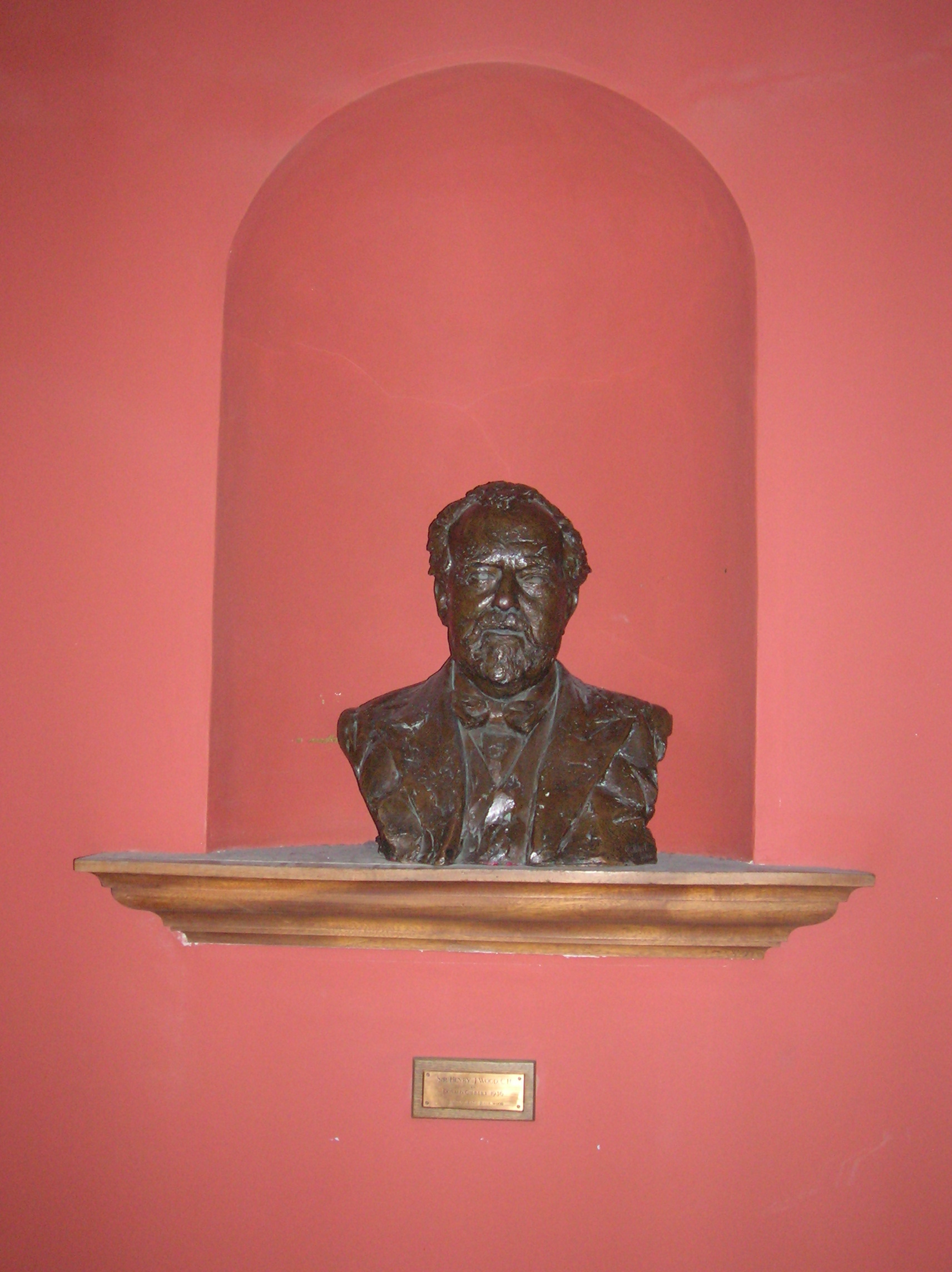 Bust of Henry J. Wood at the Duke's Hall, Royal Academy of Music, London. During the Proms, it is placed in front of the organ at the Royal Albert Hall.